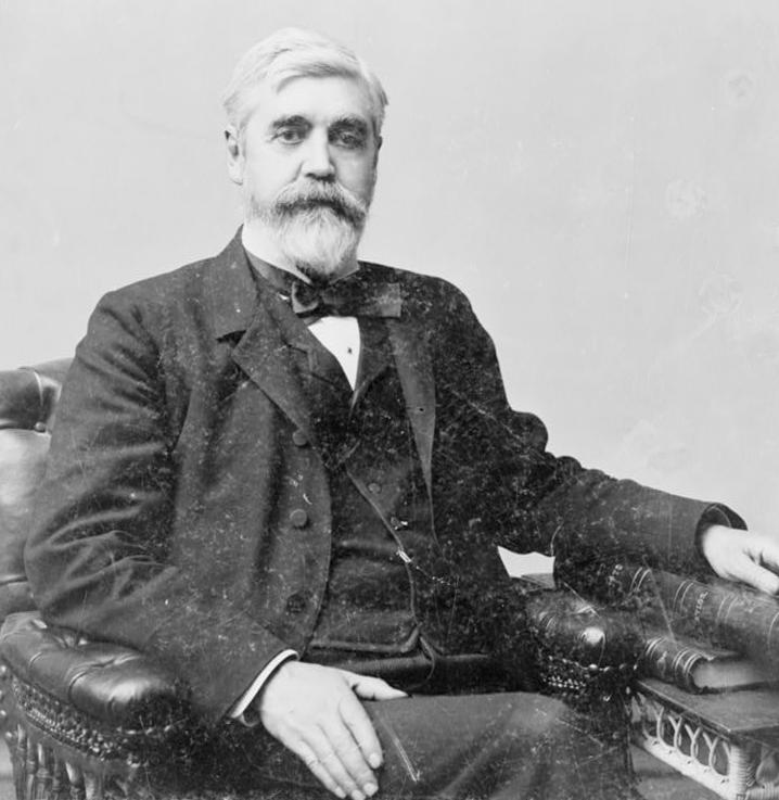 Walter Quinton Gresham, half-length portrait, seated, facing slightly right.